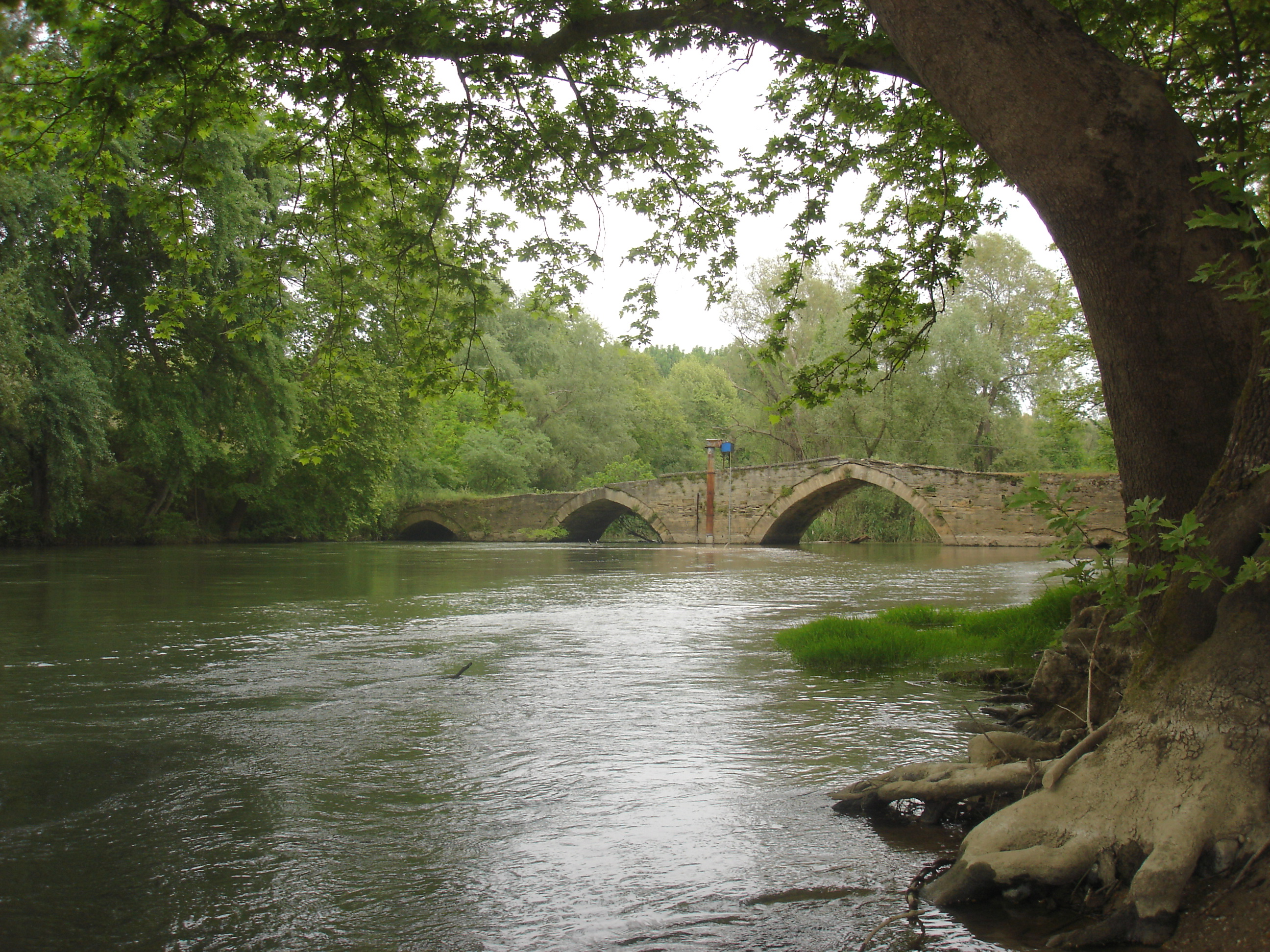 The old bridge on Aggitis river, Alistrati, Greece.